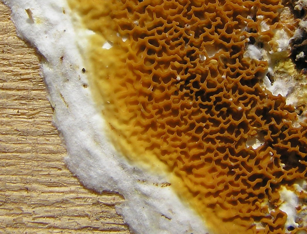 Serpula lacrymans